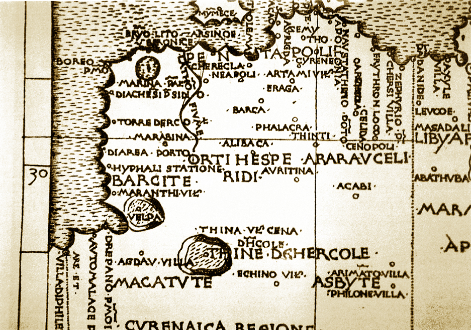 The Location of the Garden of Hesperides in the Cyrenaica region of Africa, in the Geography by Ptolemy.